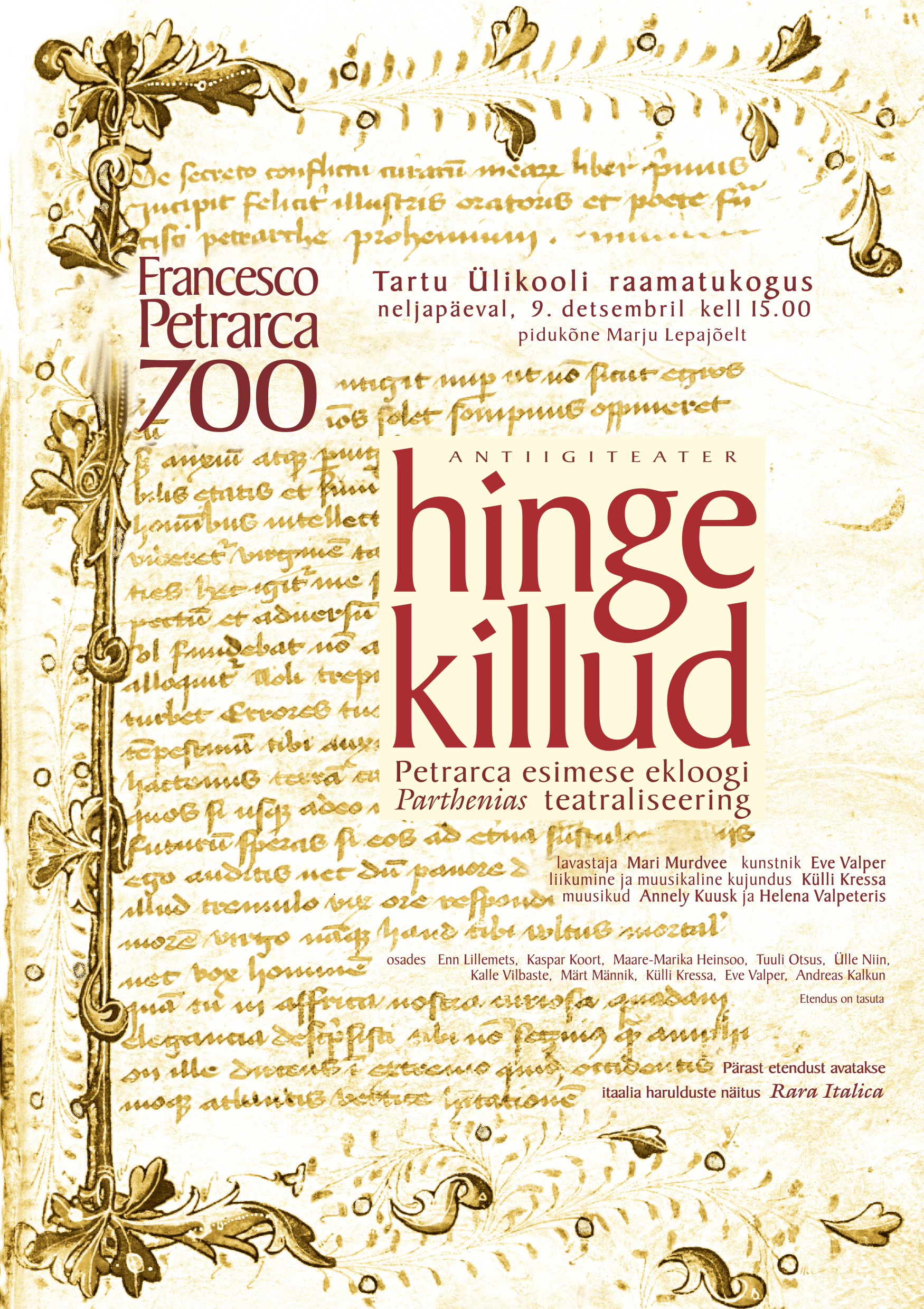 Poster of dramatic play 'Pieces of soul' (based on Petrarca eclogues and antique texts) premiére, performed by Antiigiteater in Tartu 2004